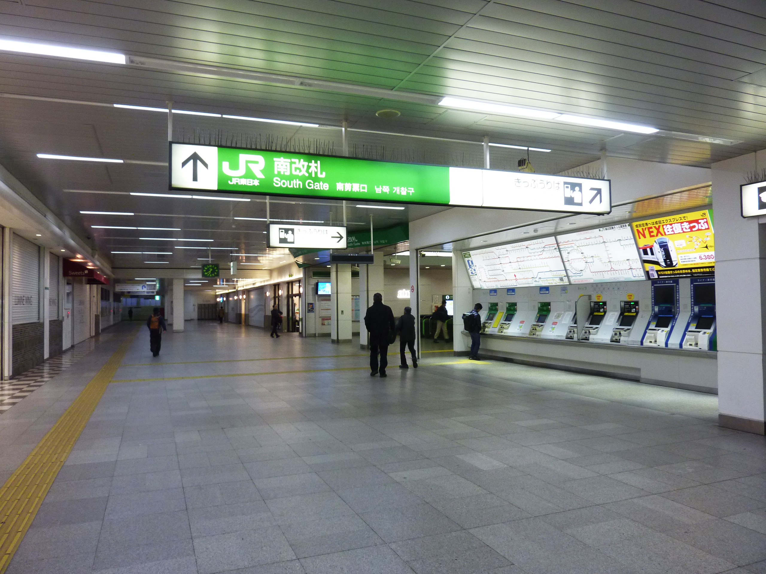 Ofuna Station